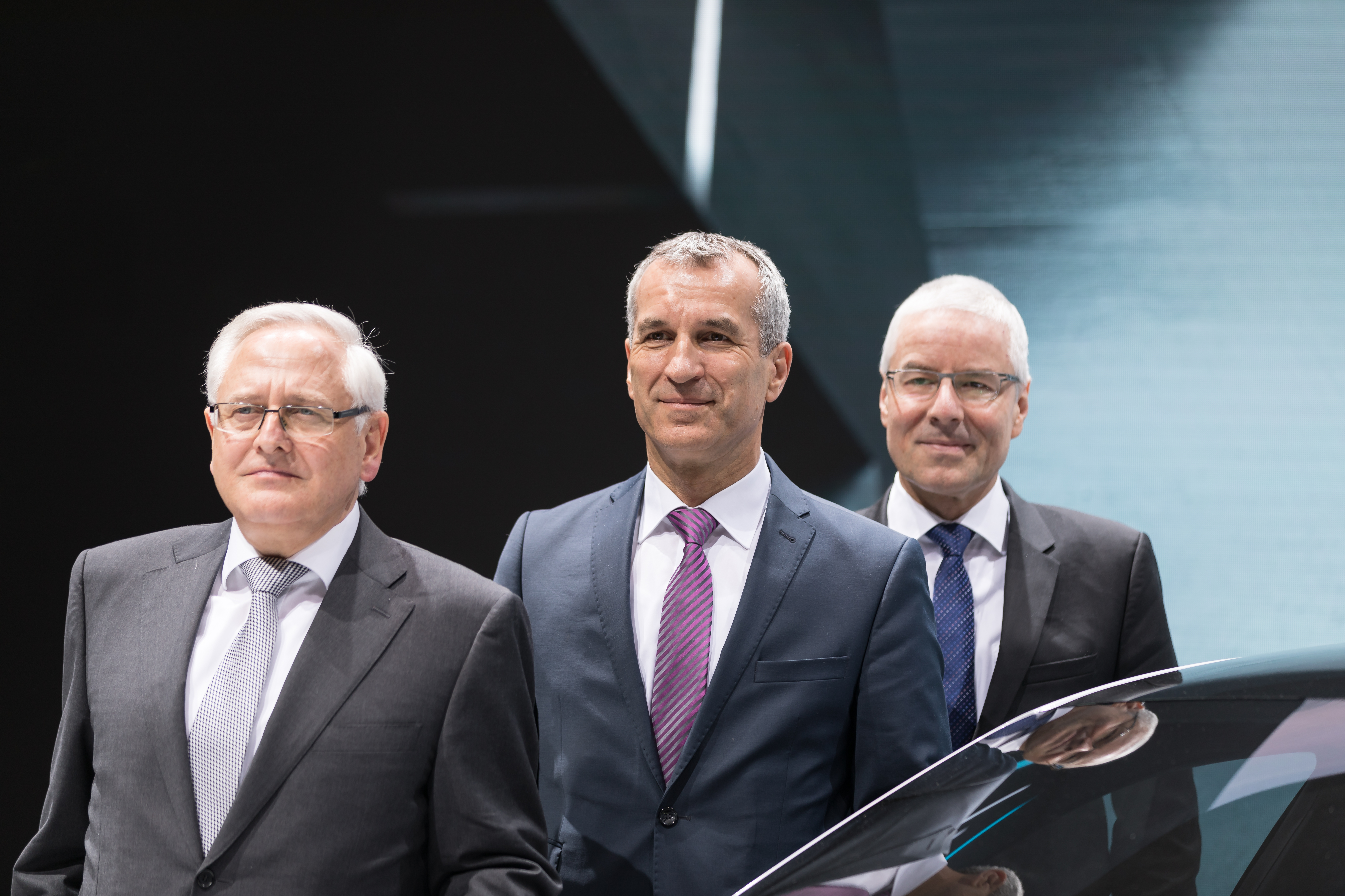 Geneva International Motor Show 2018, Porsche